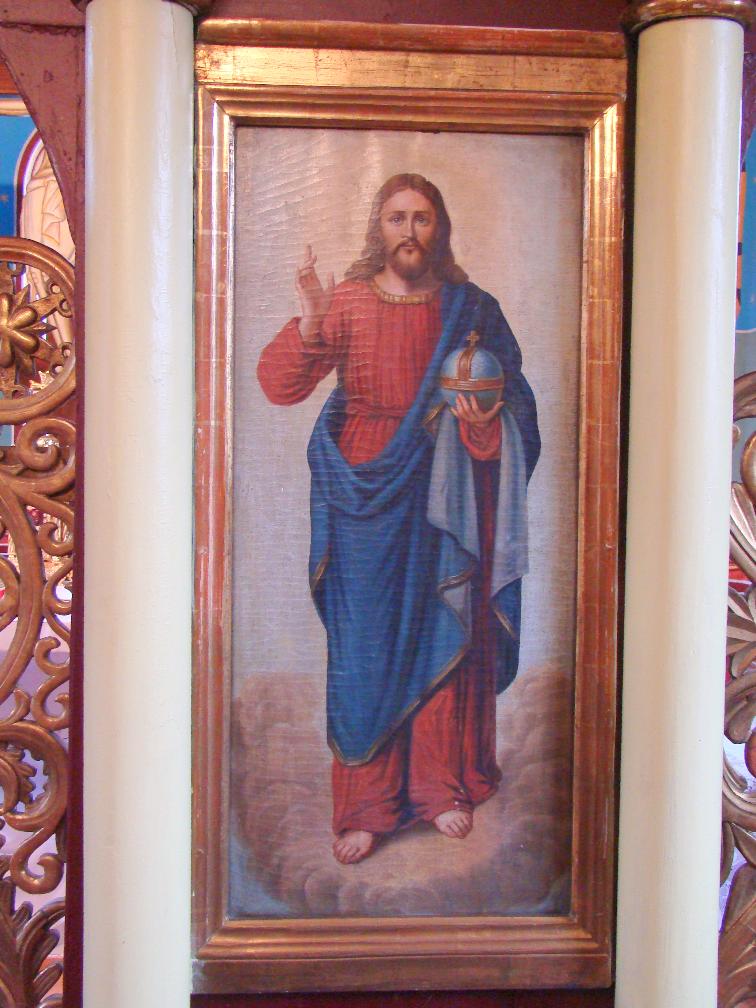 Wooden church in Nețeni, Bistrița-Năsăud county, Romania